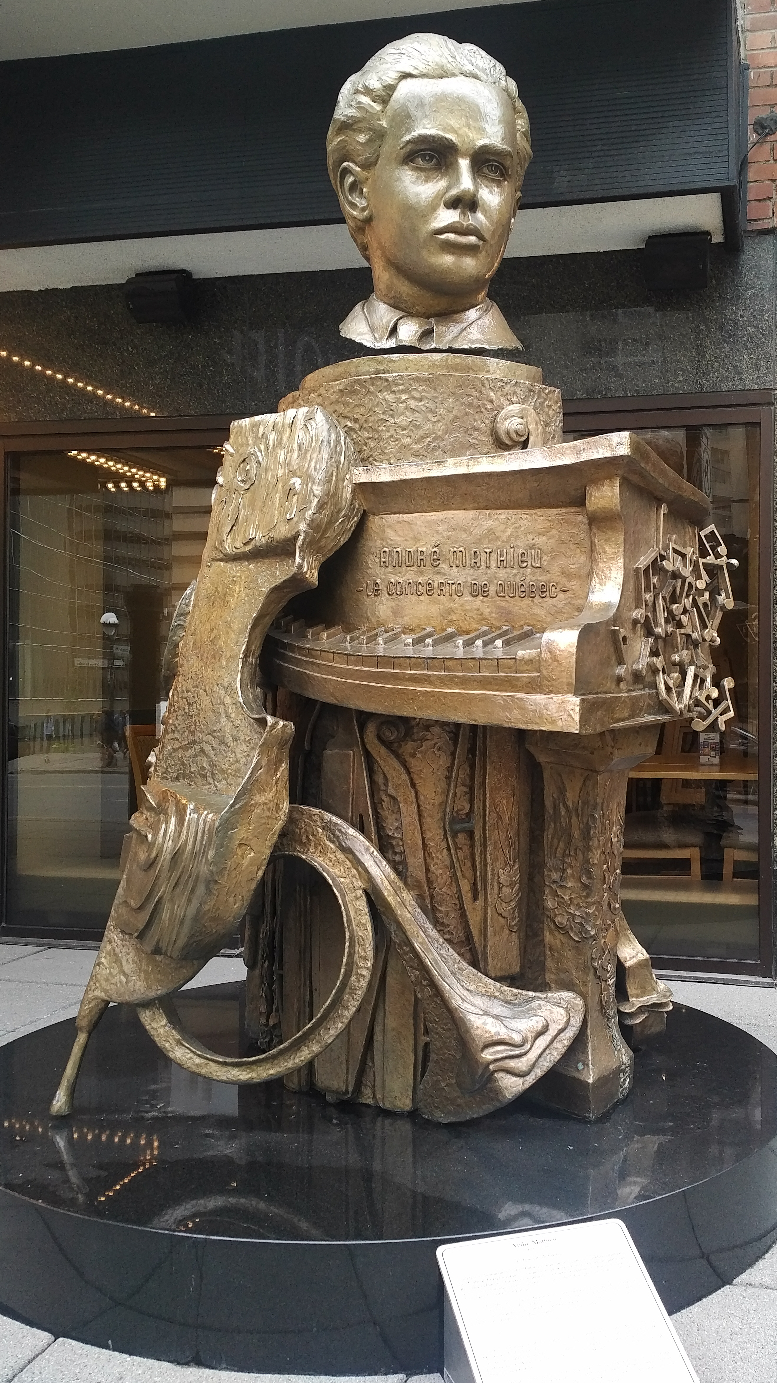 Bronze sculpture "Le concerto de Québec" in commemoration to Quebecois pianist and composer André Mathieu. The monument stands at the entrance to the Appartement Hôtel, Sherbrooke Street West. Sculptors: White and White (2015).